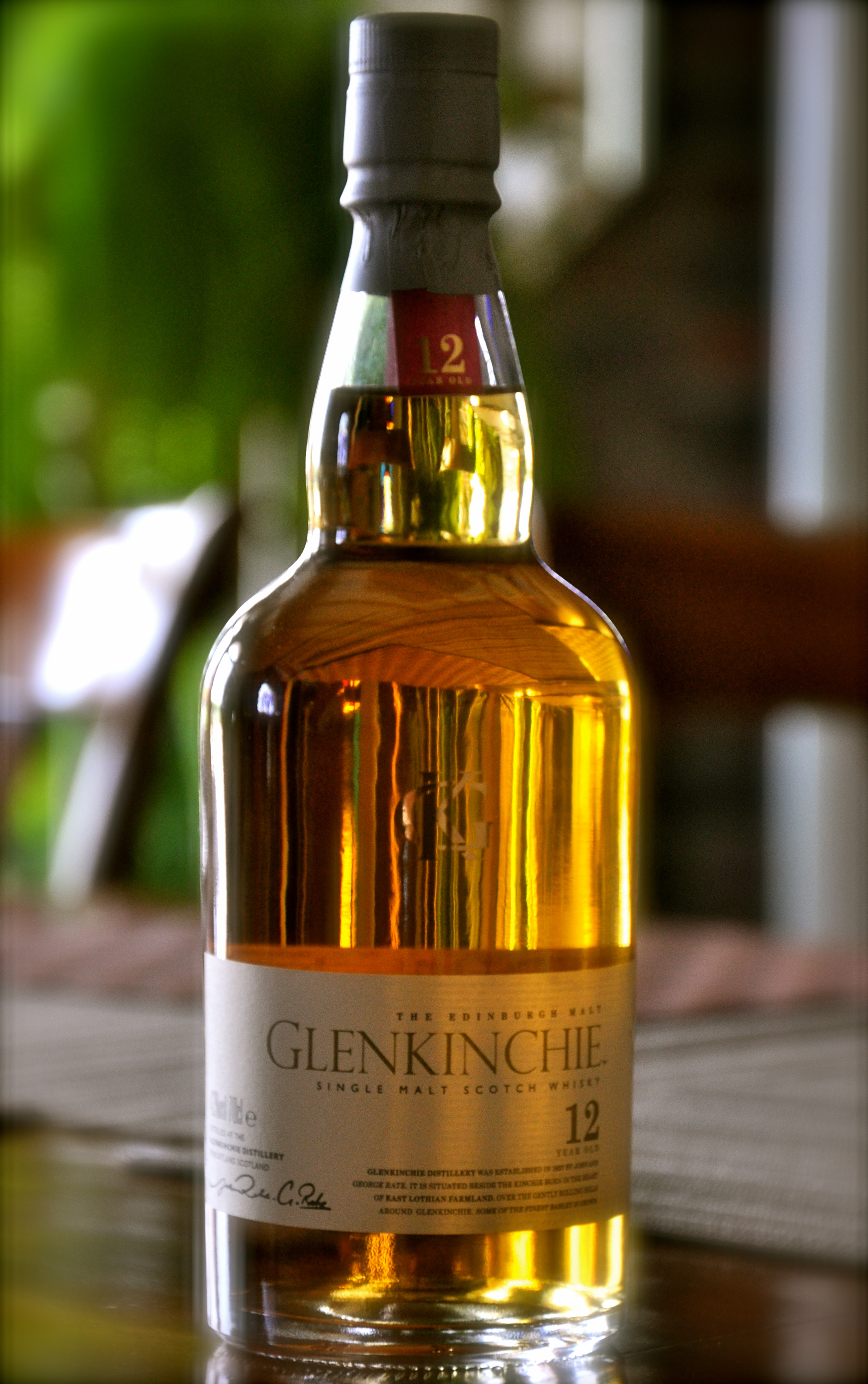 Bottle of 12 years old Glenkinchie whisky